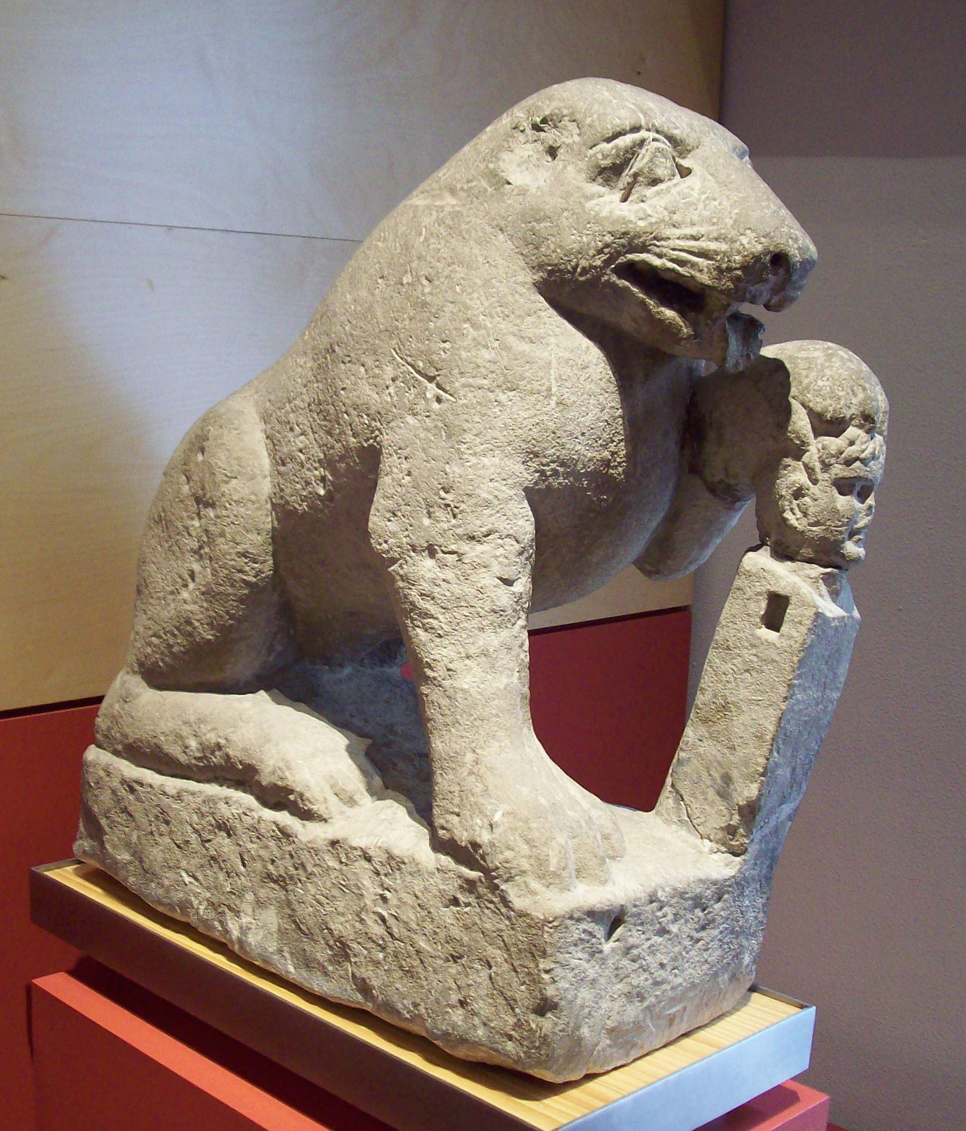 Iberian sculpture of a bear leaned on a herma.